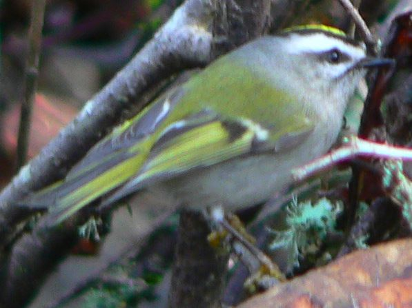 (Golden-crowned Kinglet)